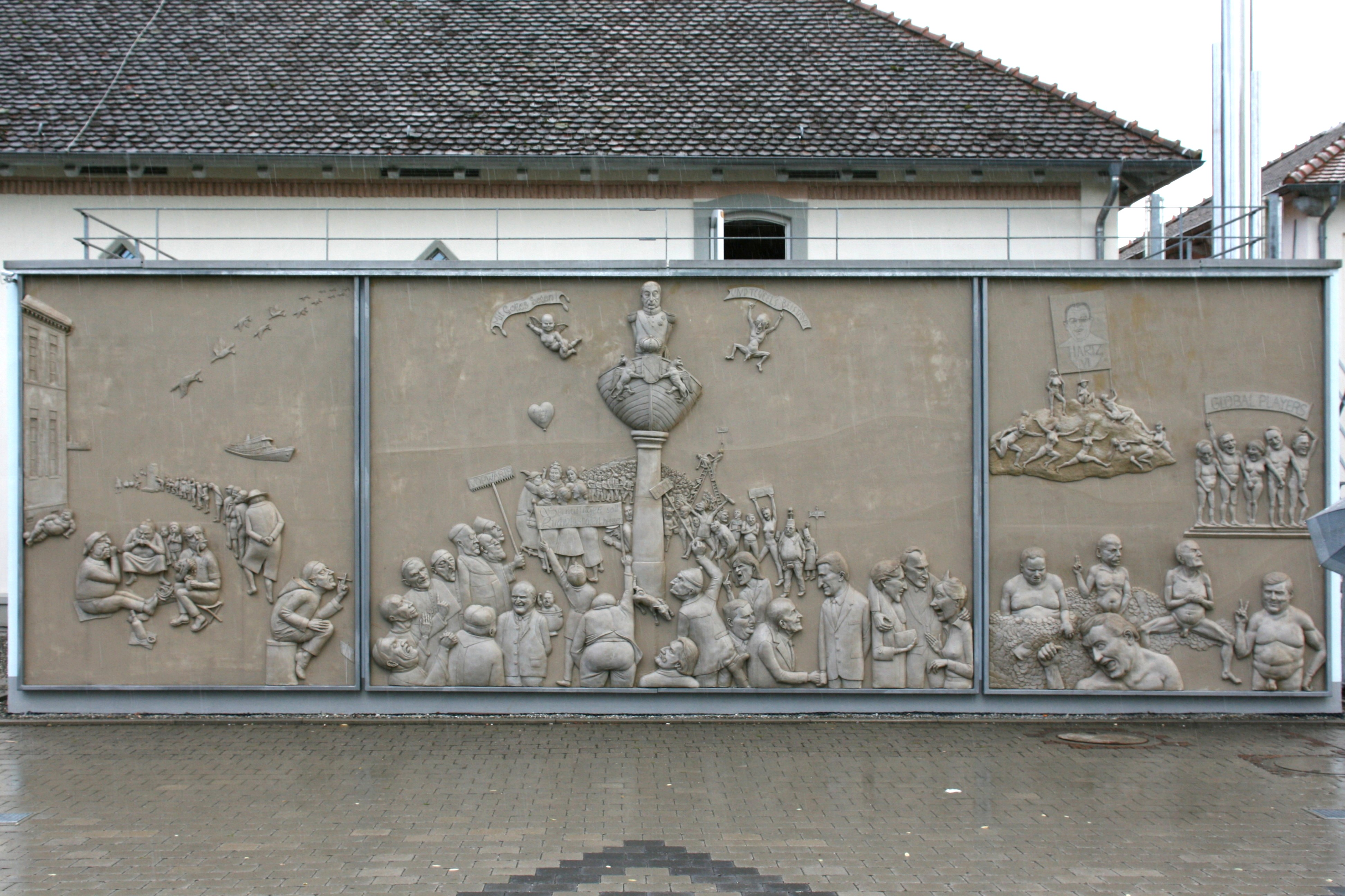 Relief “Ludwigs Erbe” by Peter Lenk, close to Zollhaus and tourist information, Hafenstraße 5, Ludwigshafen am Bodensee, Bodman-Ludwigshafen in Germany: All three parts of the triptych